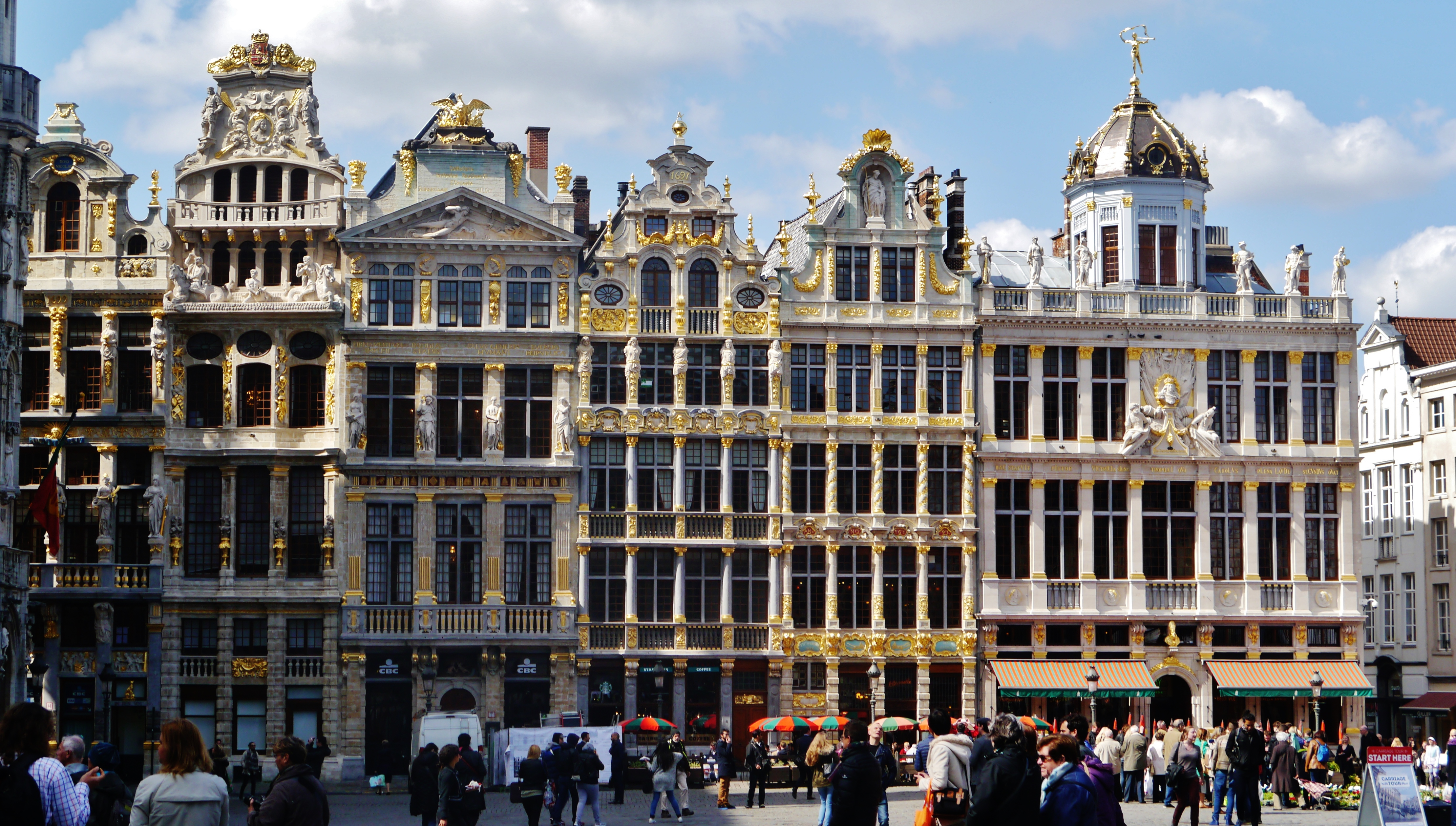 No. 1 till 6 at the Grand Square, Brussels, Region of Brussels, Belgium